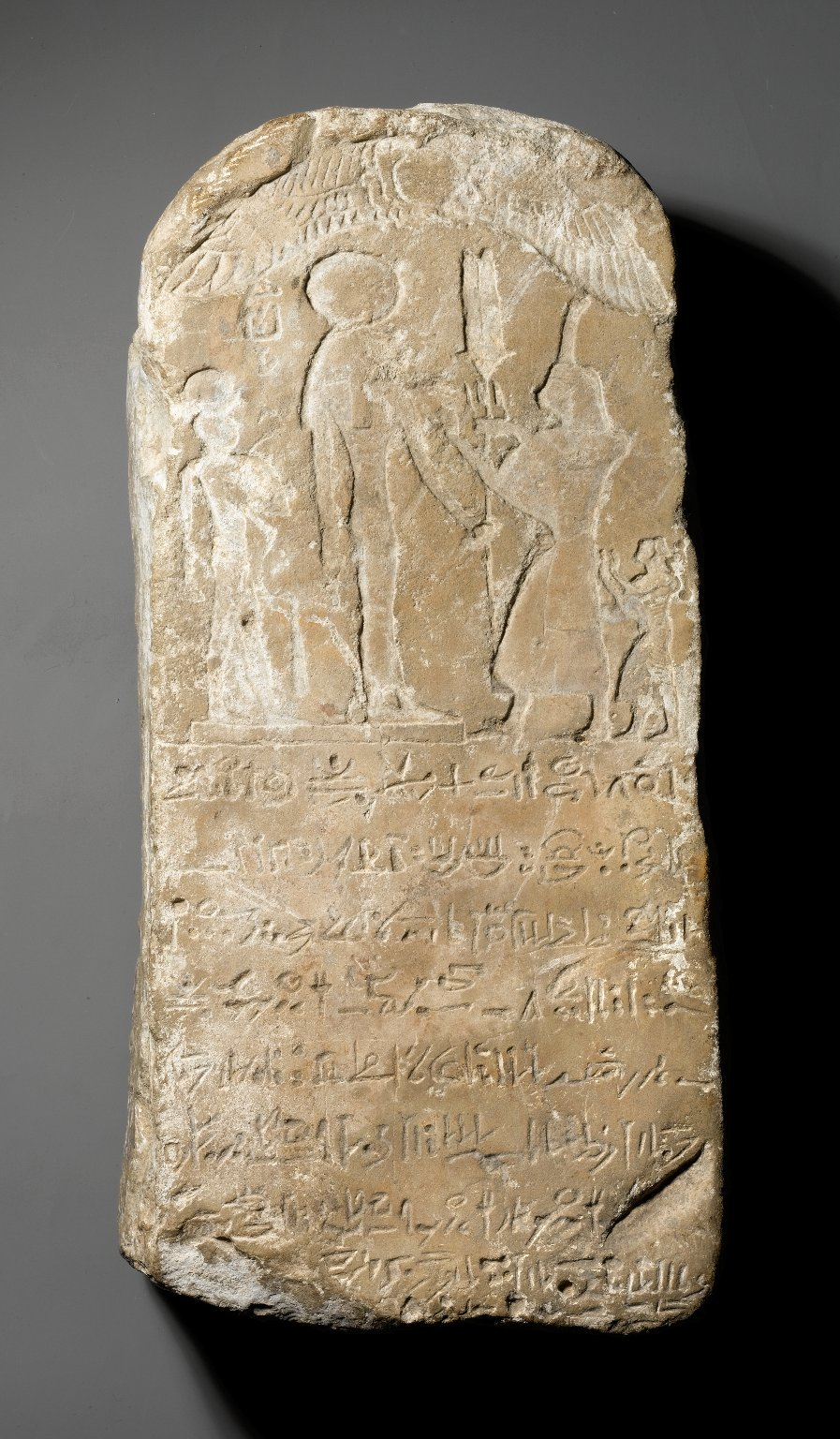 Donation Stela with Image of the God Heka ("Magic"), the Goddess Sakhmet and a Curse, ca. 945-715 B.C.E. Limestone, 15 1/2 x 7 5/16 x 4 15/16 in. (39.3 x 18.5 x 12.5 cm). Brooklyn Museum, Charles Edwin Wilbour Fund, 67.119. Creative Commons-BY. The stela shows the Chief of the Libu Titaru son of Didi (the one with the feather on his head), offering tho the two aforementioned deities. It is dated to the regnal year 15 (or 17) of pharaoh Shoshenq V of the 22nd Dynasty. Probably from Kom Firin, western Nile Delta.